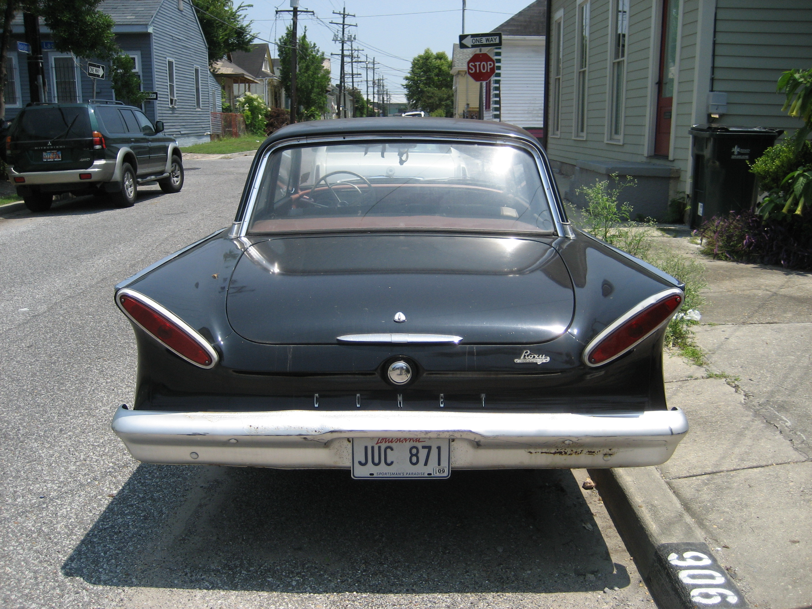 A Mercury Comet (1960, I think) seen parked on street in Uptown New Orleans.